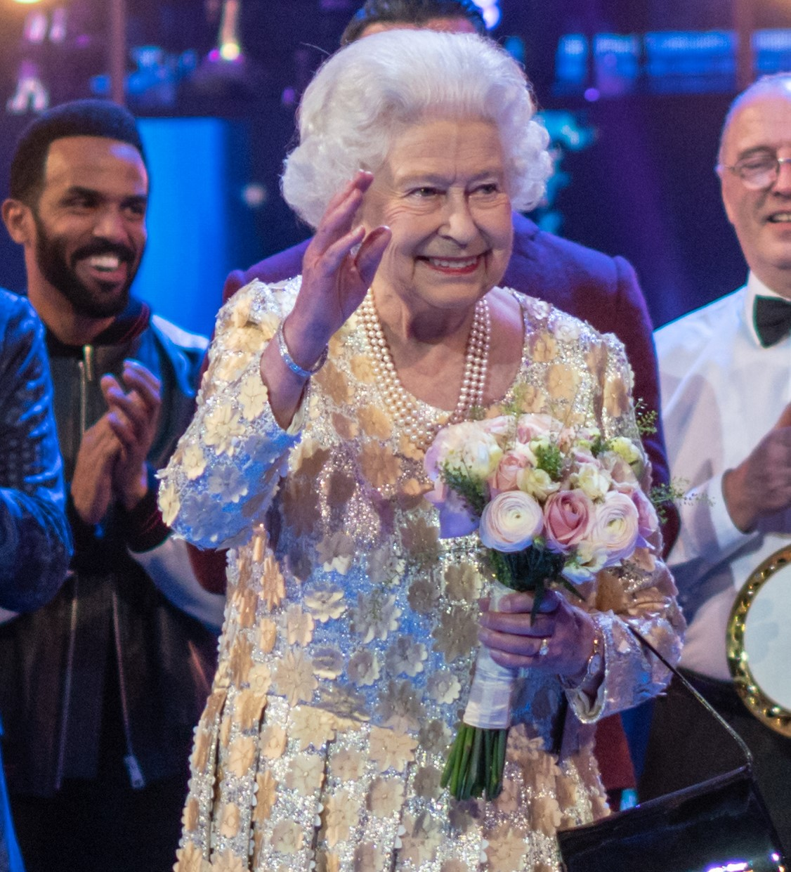 Queen Elizabeth II, at the end of The Queen's Birthday Party, at Royal Albert Hall, London, on 21 April 2018.